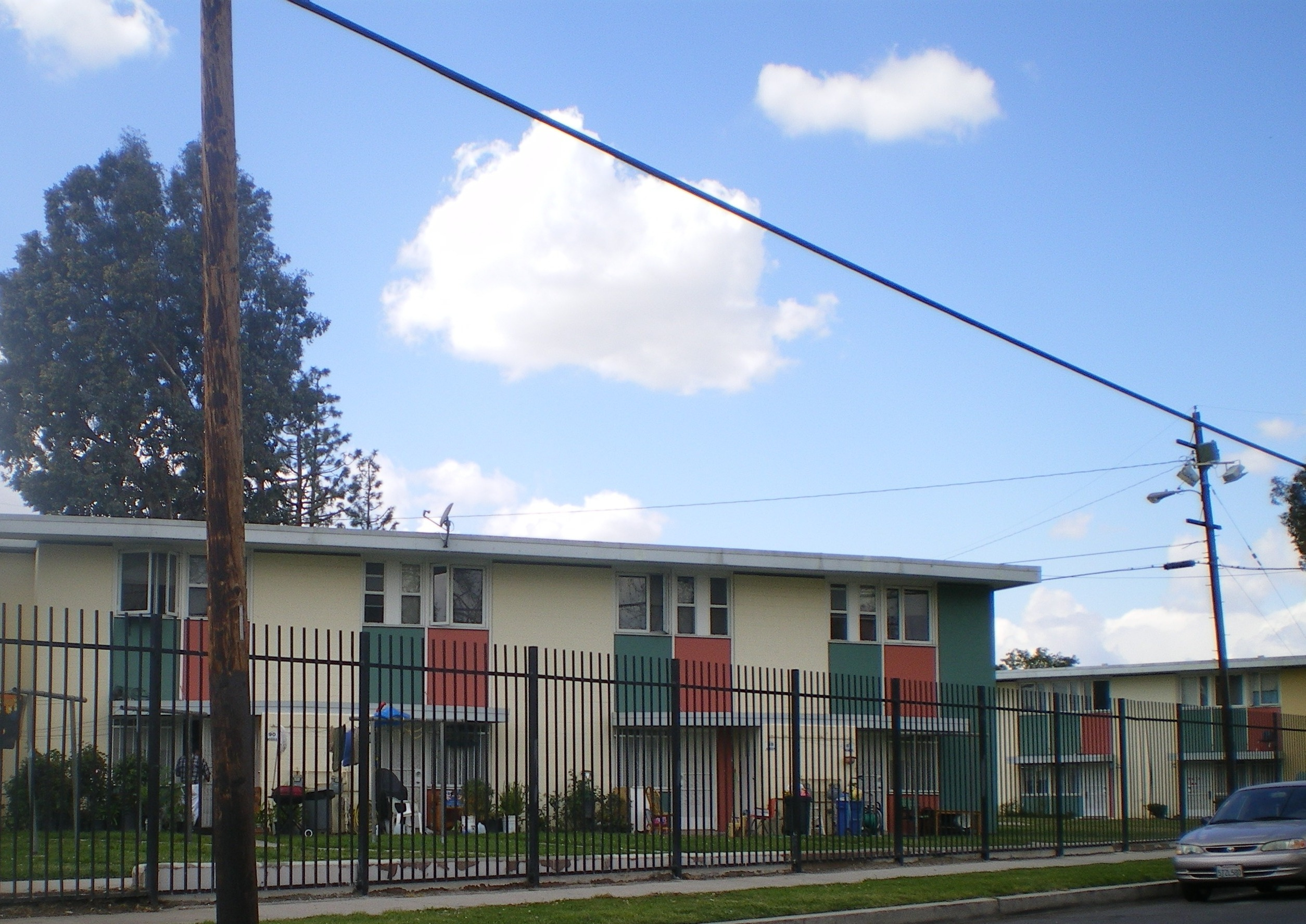 San Fernando Gardens — public housing apartments, in the Pacoima neighborhood of Los Angeles, California. Located in the northeastern San Fernando Valley.